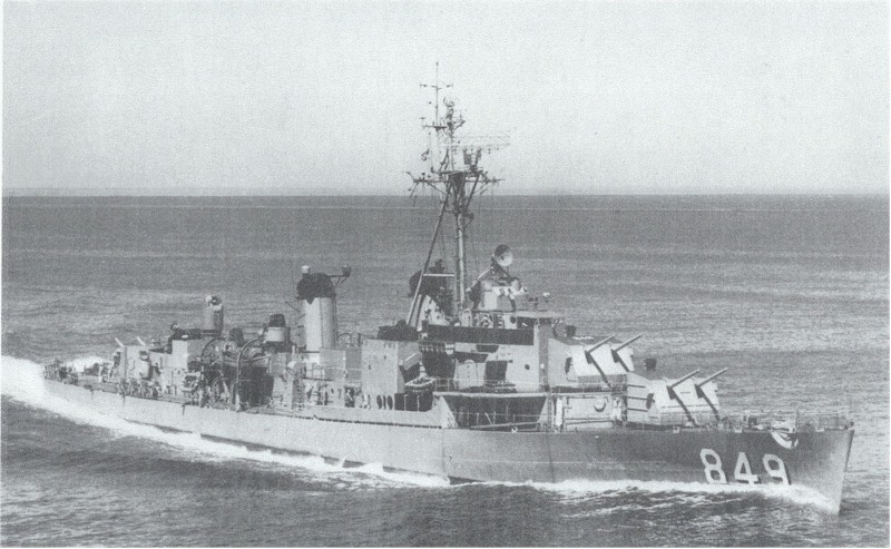 The U.S. Navy destroyer USS Richard E. Kraus (DD-849) underway at sea, circa in 1954.